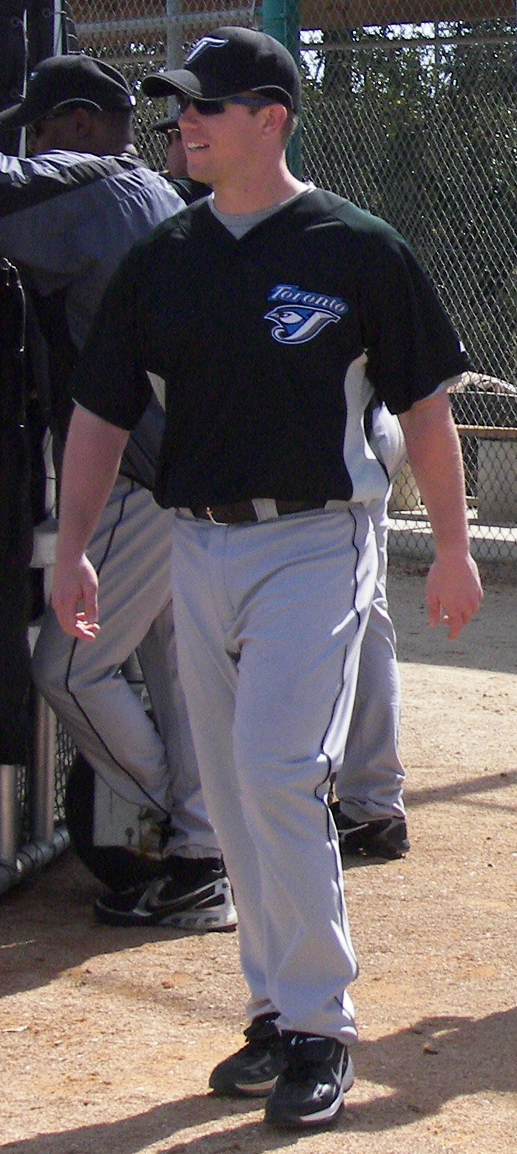 Toronto Blue Jays infielder Aaron Hill during a spring training workout at the Blue Jays' spring training complex in Dunedin, Florida.